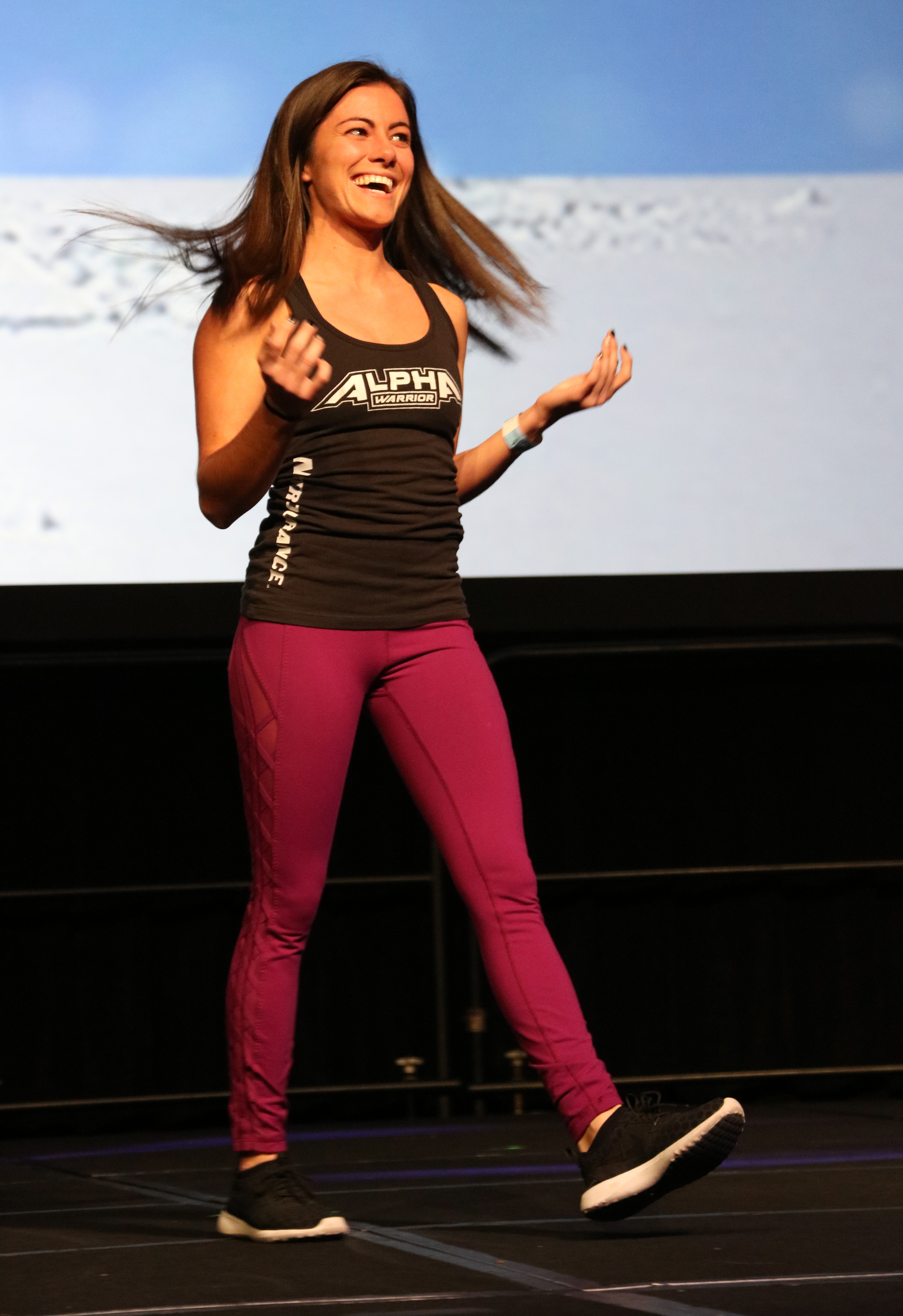 Kacy Catanzaro, of Alpha Warrior, greets families of fallen Soldiers during the Snowball Express opening ceremony Dec. 11, 2016 in Dallas, Texas. n 2016, Alpha Warrior partnered with IMCOM G9 Family and Morale, Welfare and Recreation by touring across the country and challenging Soldiers at select installations to complete the battle rig course. (U.S. Army photo by Jessica Ryan)